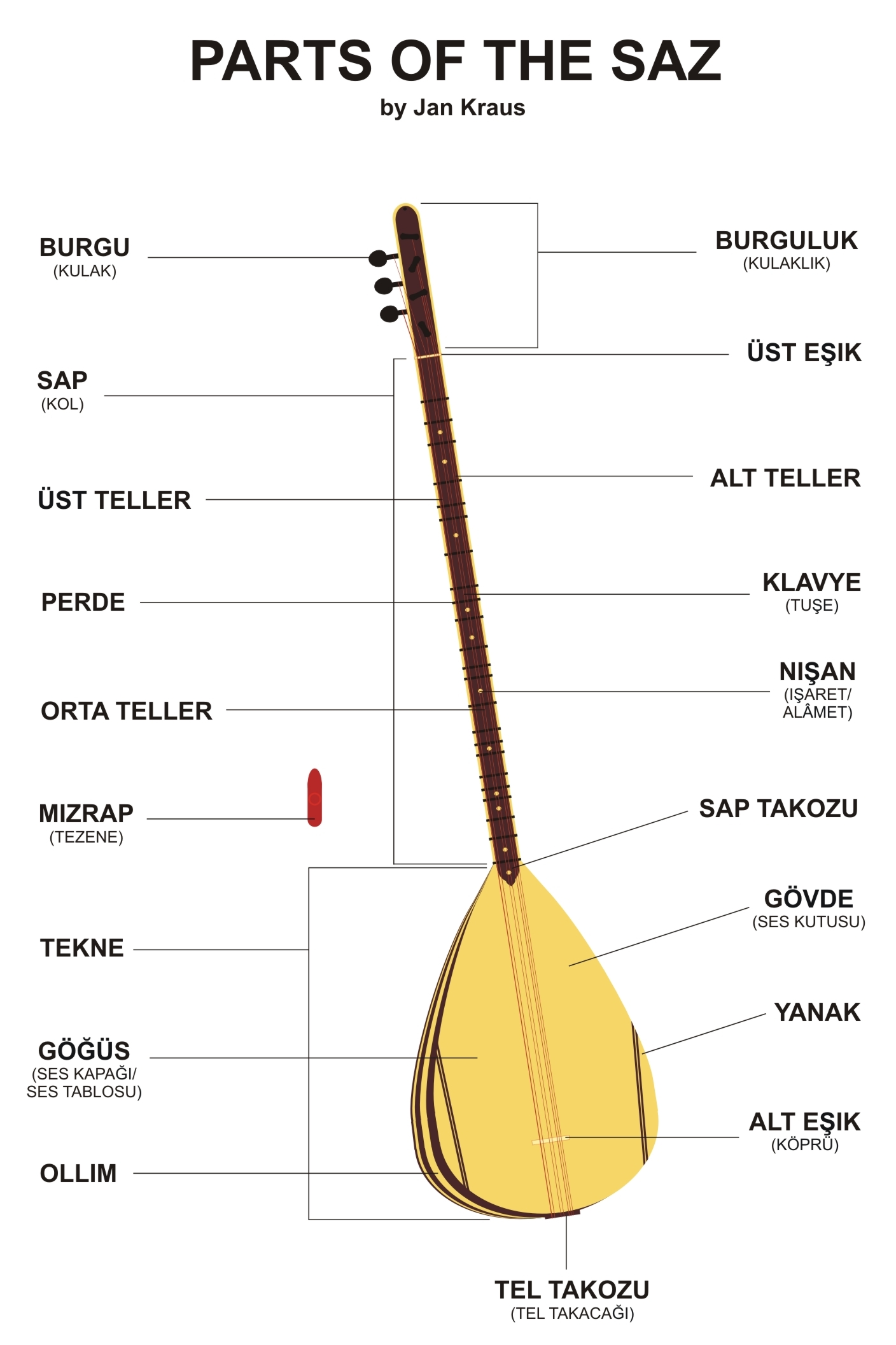 A diagram showing parts of baglama saz